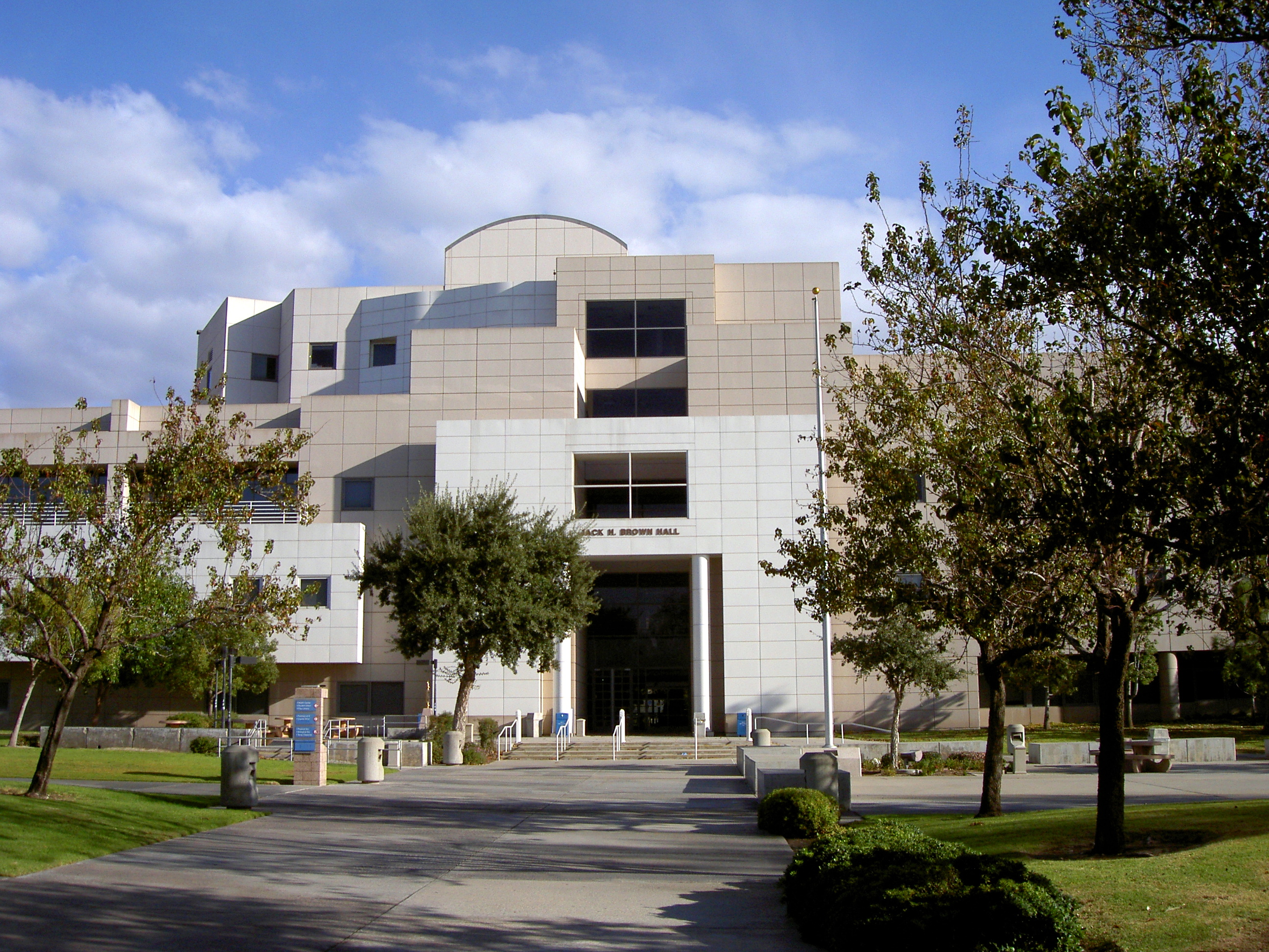 CSUSB